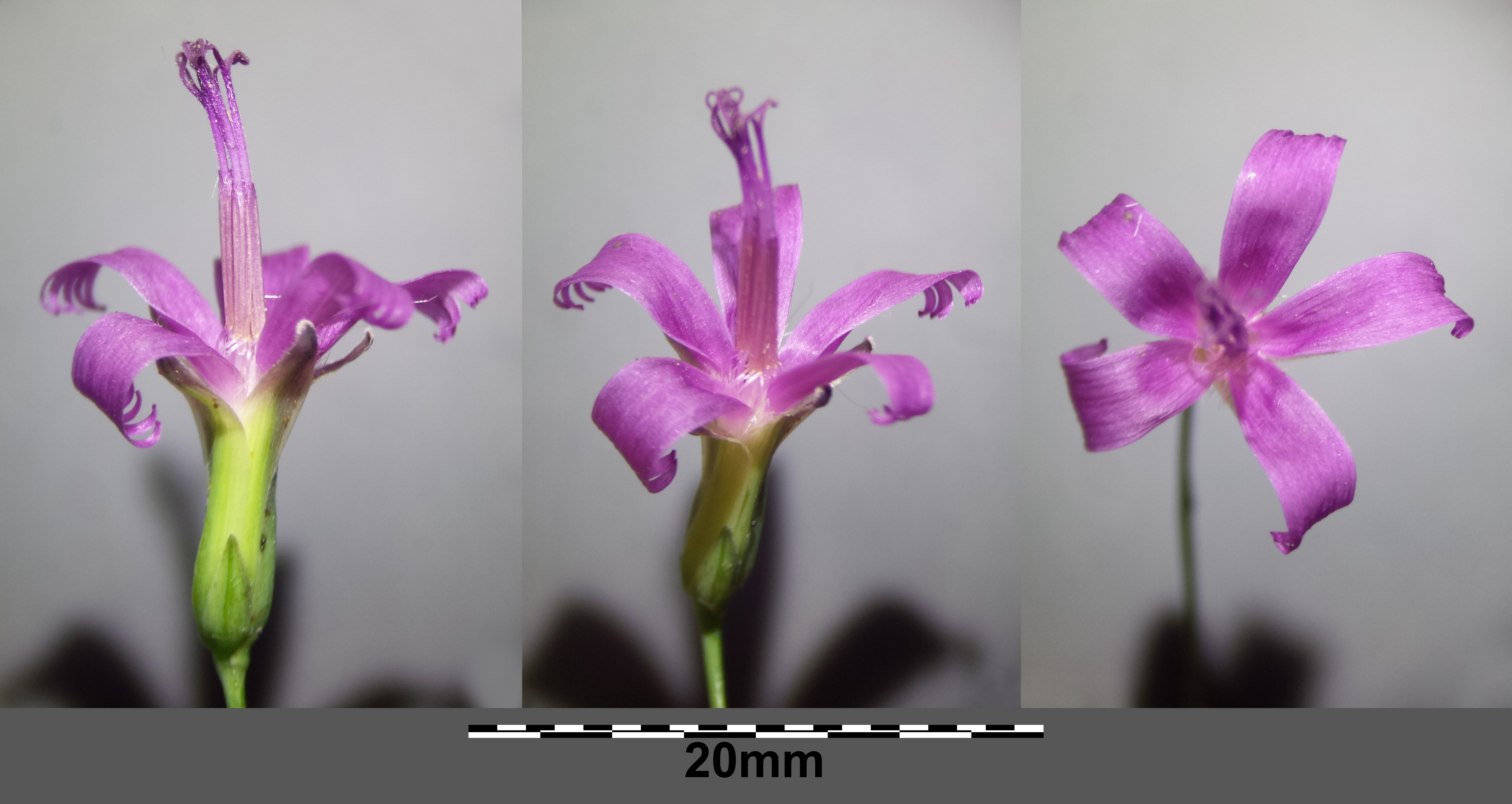 Capitulum Taxonym: Prenanthes purpurea ss Fischer et al. EfÖLS 2008 ISBN 978-3-85474-187-9 Location: near Arbesbach, Groß-Gerungs, district Zwettl, Lower Austria - ca. 750 m a.s.l. Habitat: wood